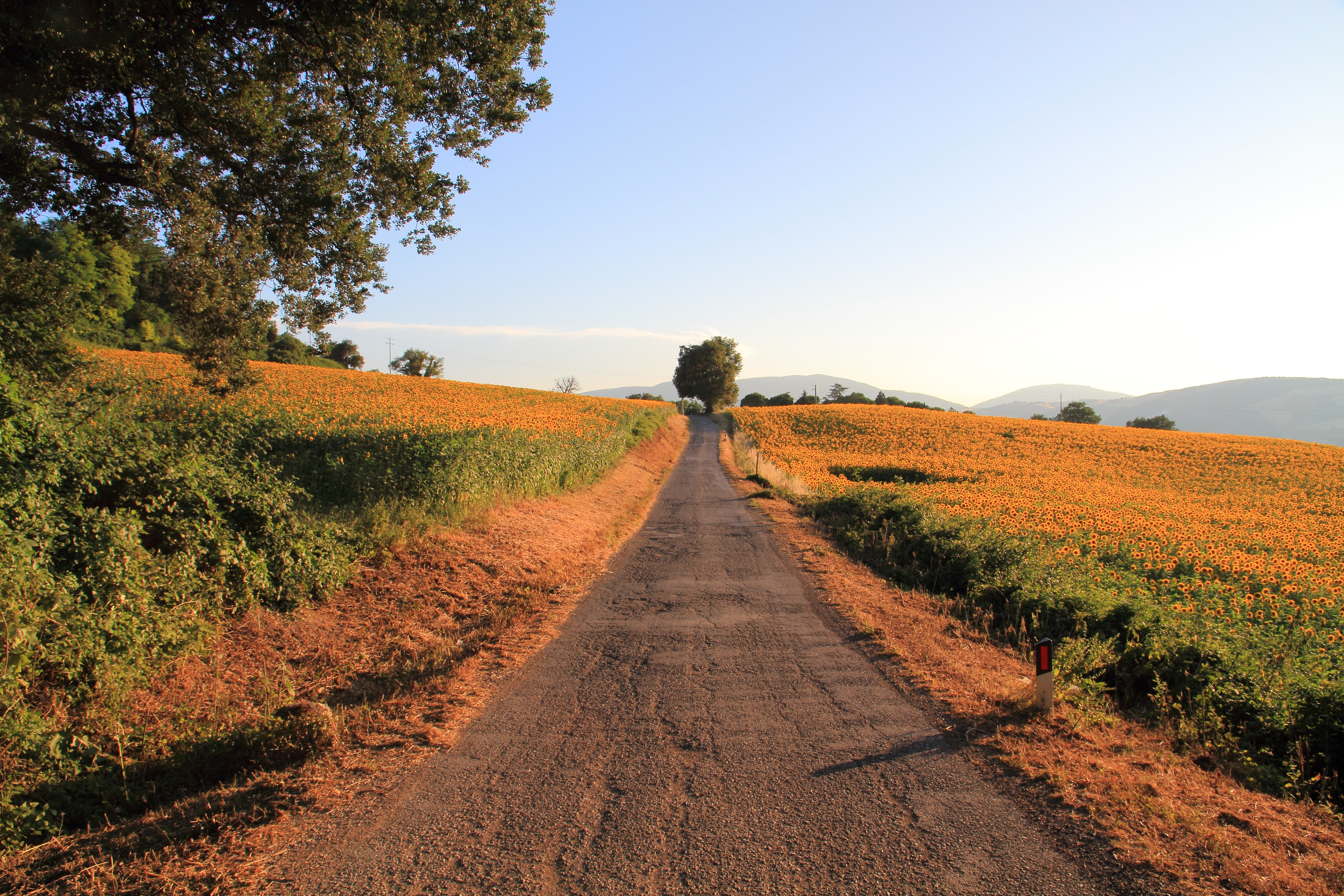 Road in Sant'Ippolito, Province of Pesaro and Urbino